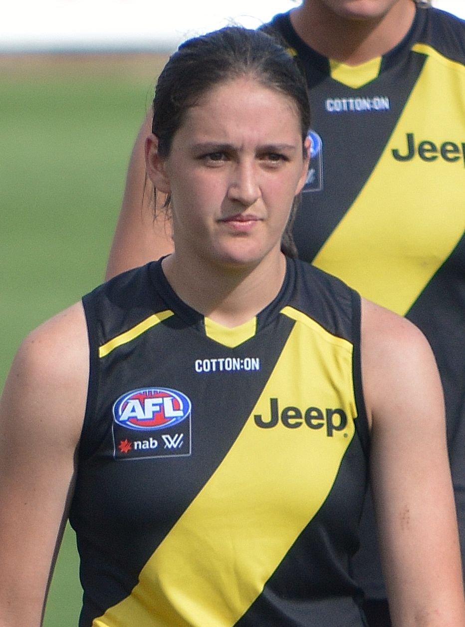 Sarah Sansonetti with Richmond during the round 3, 2020 AFL Women's match against North Melbourne at Ikon Park.